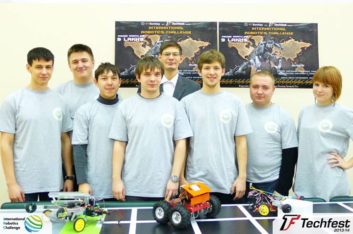 Participants of International Robotics Challenge with their bots